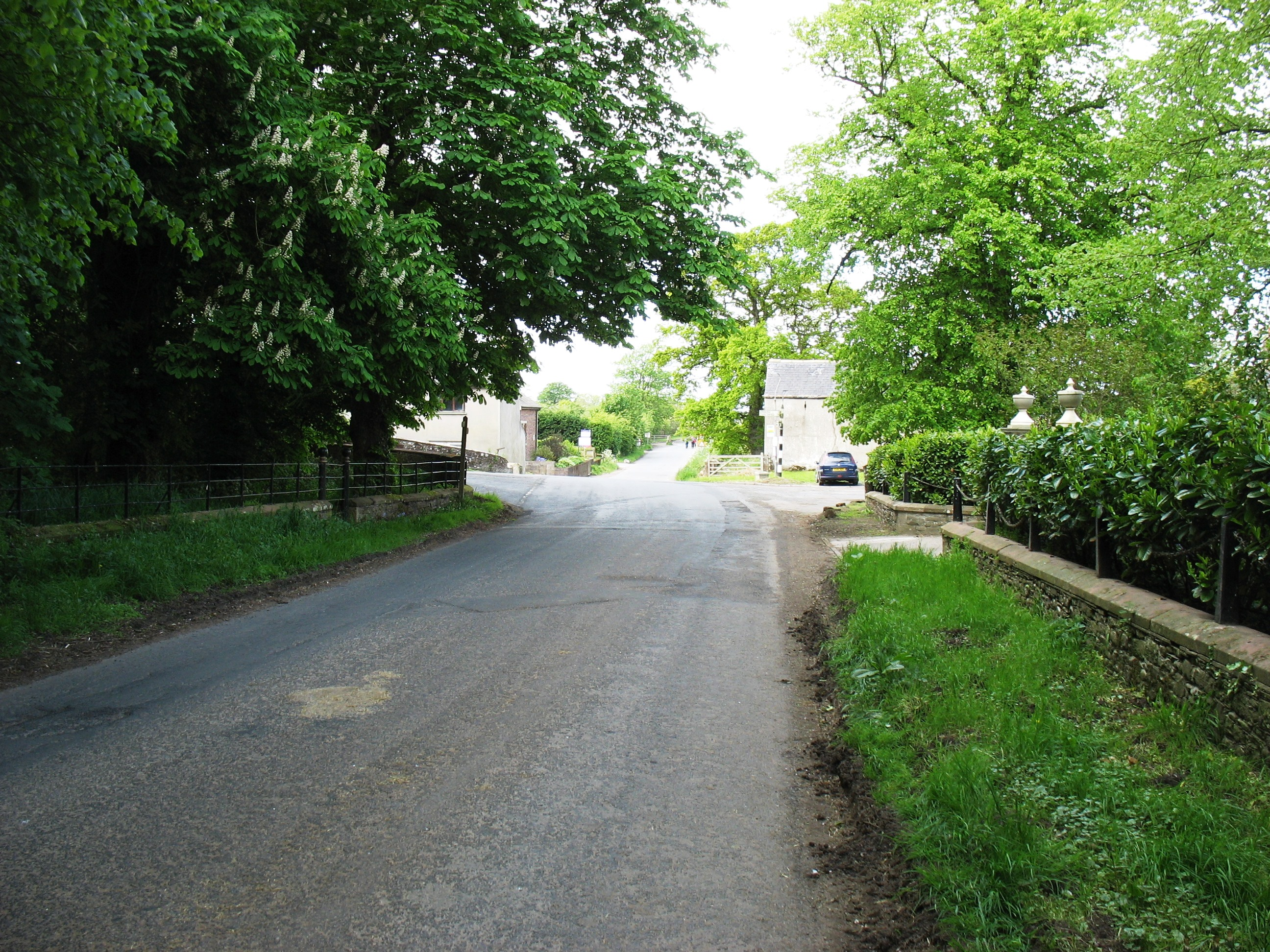 The Dykesfield crossroads